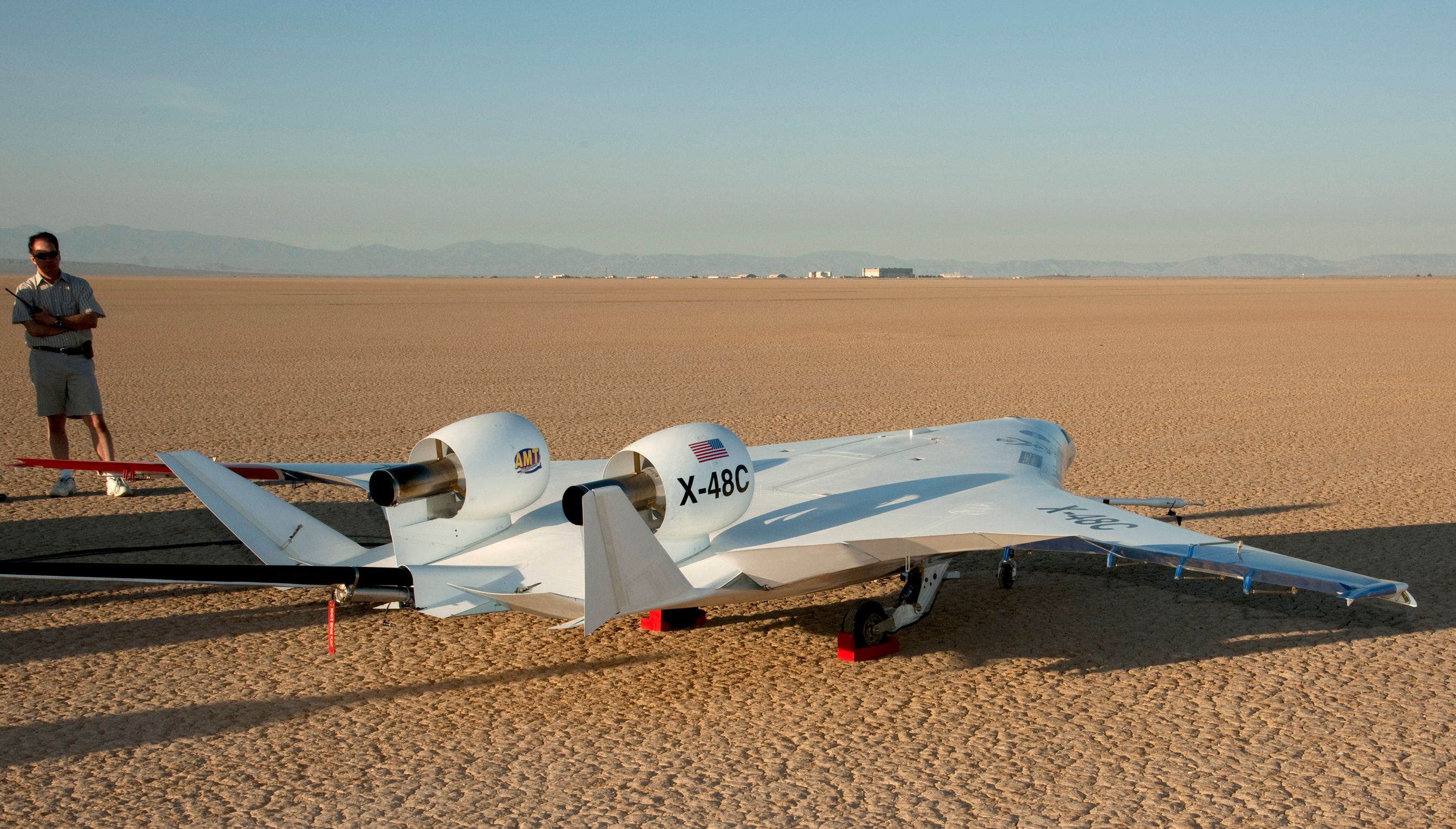 NASA-Boeing X-48C blended wing body technology demonstrator awaits its first flight from Rogers Dry Lake on a hot August morning at Edwards Air Force Base, Calif.